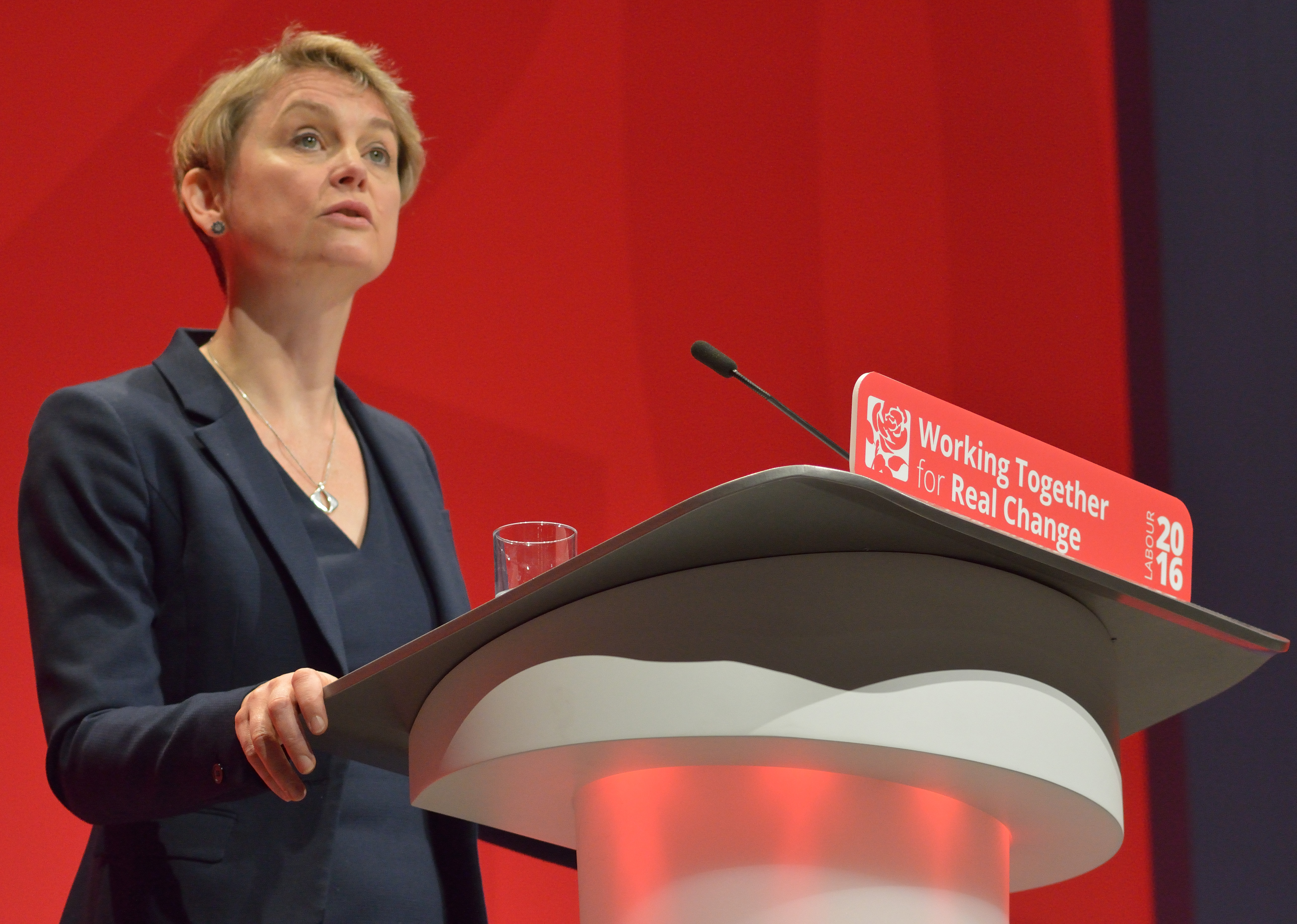 Yvette Cooper speaking at the 2016 Labour Party Conference in Liverpool.